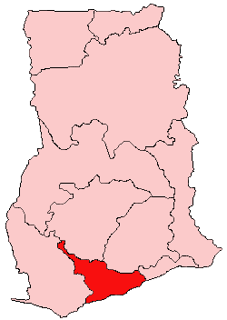 Map of Ghana showing Central Region; created with the GIMP. Made by User:Acntx.